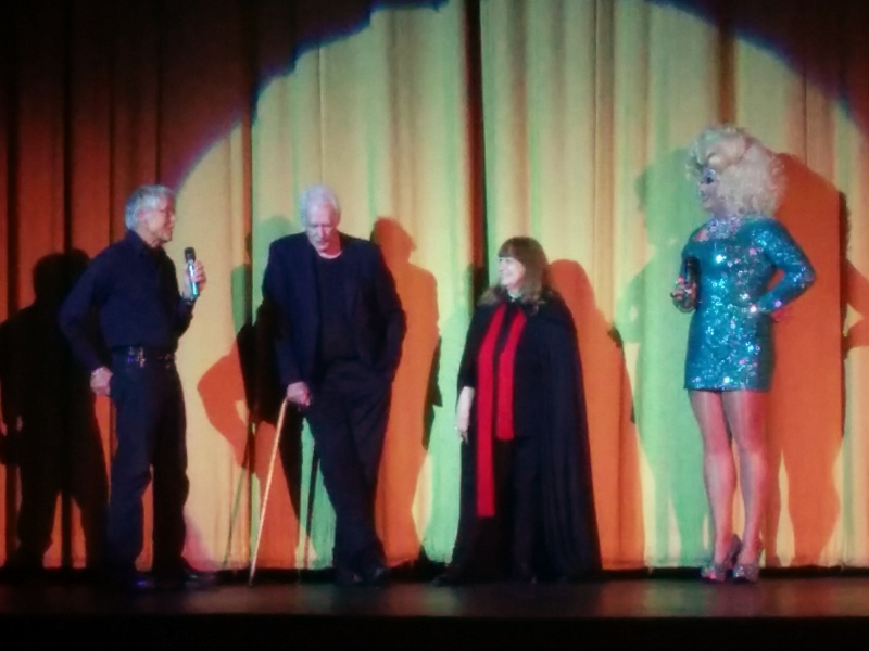 Ken Scudder, Mark Ellinger, and Melinda McDowell with Peaches Christ at a Q&A for Thundercrack! at the Castro Theatre in San Francisco, California, United States